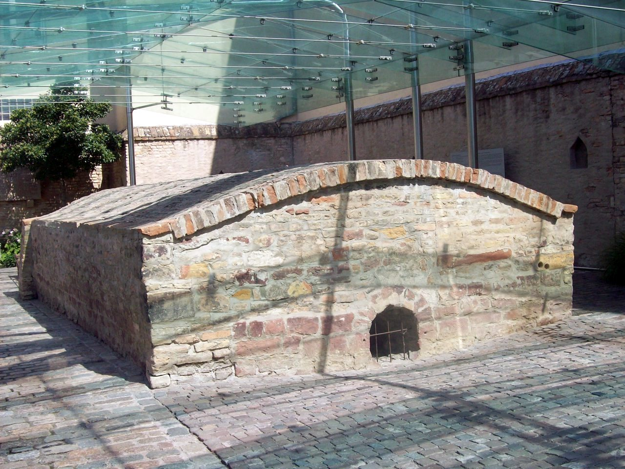 Backside of the medieval mikvah at the Jewish courtyard in Speyer covered by a modern glass and metal roof